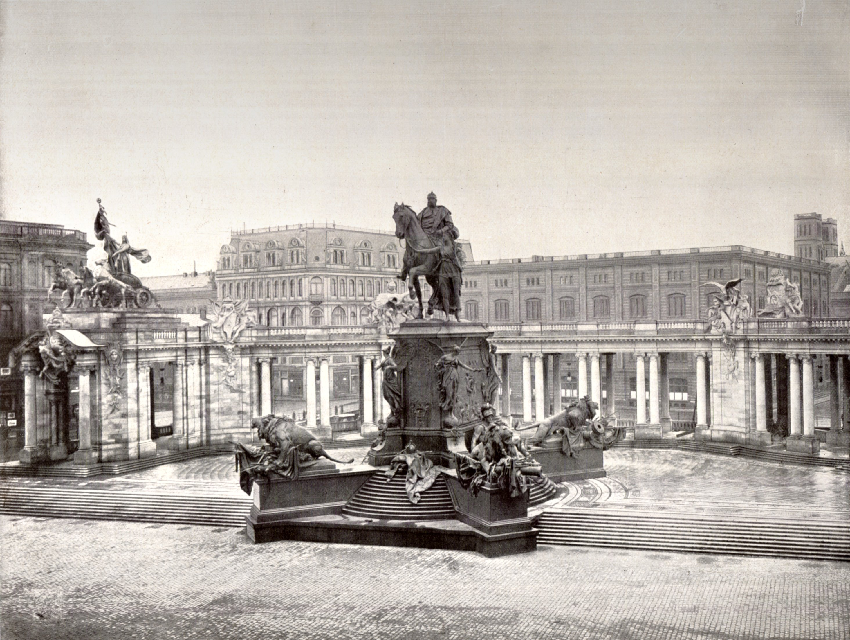 Berlin, Kaiser Wilhelm memorial, around 1900